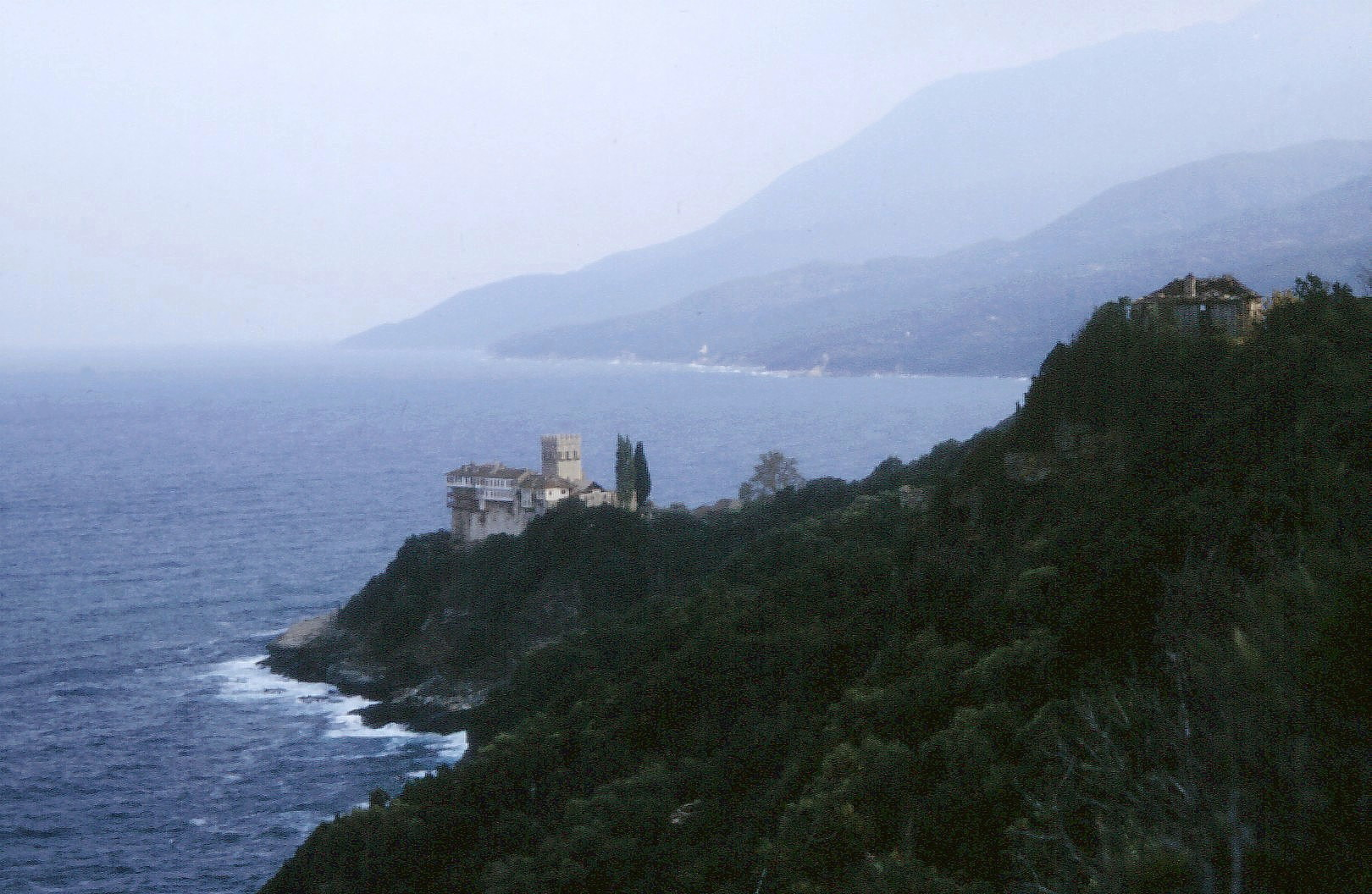 Monastery Stavronikita